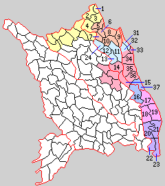 北葛飾郡の町村。